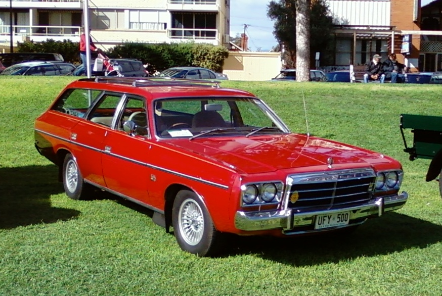 Chrysler CM Regal Wagon at the Chrysler Restorers Club Day at Glenelg in South Australia.